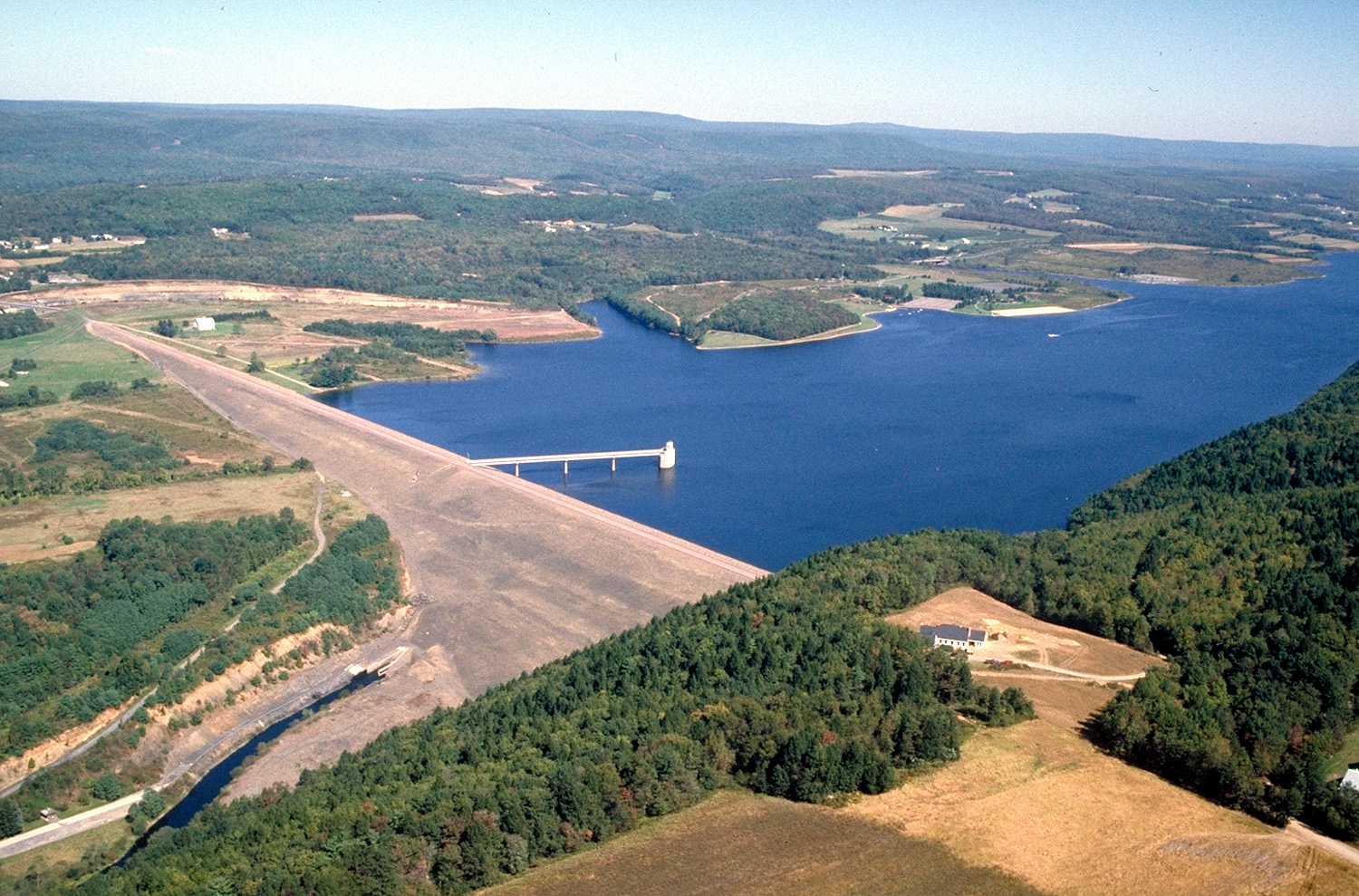 Beltzville Lake and Dam on Pohopoco Creek in Carbon County, Pennsylvania, USA. The dam is approximately 4 miles (6.4 km) east of Lehighton, Pennsylvania.